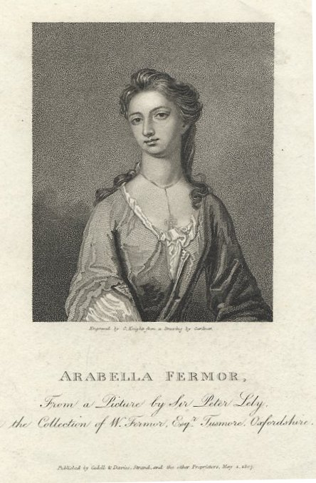 Antique engraving 7.1/2 x 6 inches Engraved by Charles Knight Drawn by Gardner after Sir Peter Lely Published by Cadel l & Davis 1807 Miss Arabella Fermor was the daughter of Henry Fermor Esq. of Tusmore in Oxfordshire. The fame of her beauty and her charms, as celebrated both by poets and painters, has come down to posterity, for she was the belle of London society in the early years of the 18th century. Alexander Pope wrote his poem, Rape of the Lock, about a scandalous incident between her and Lord Petre, much to Arabella’s dismay.